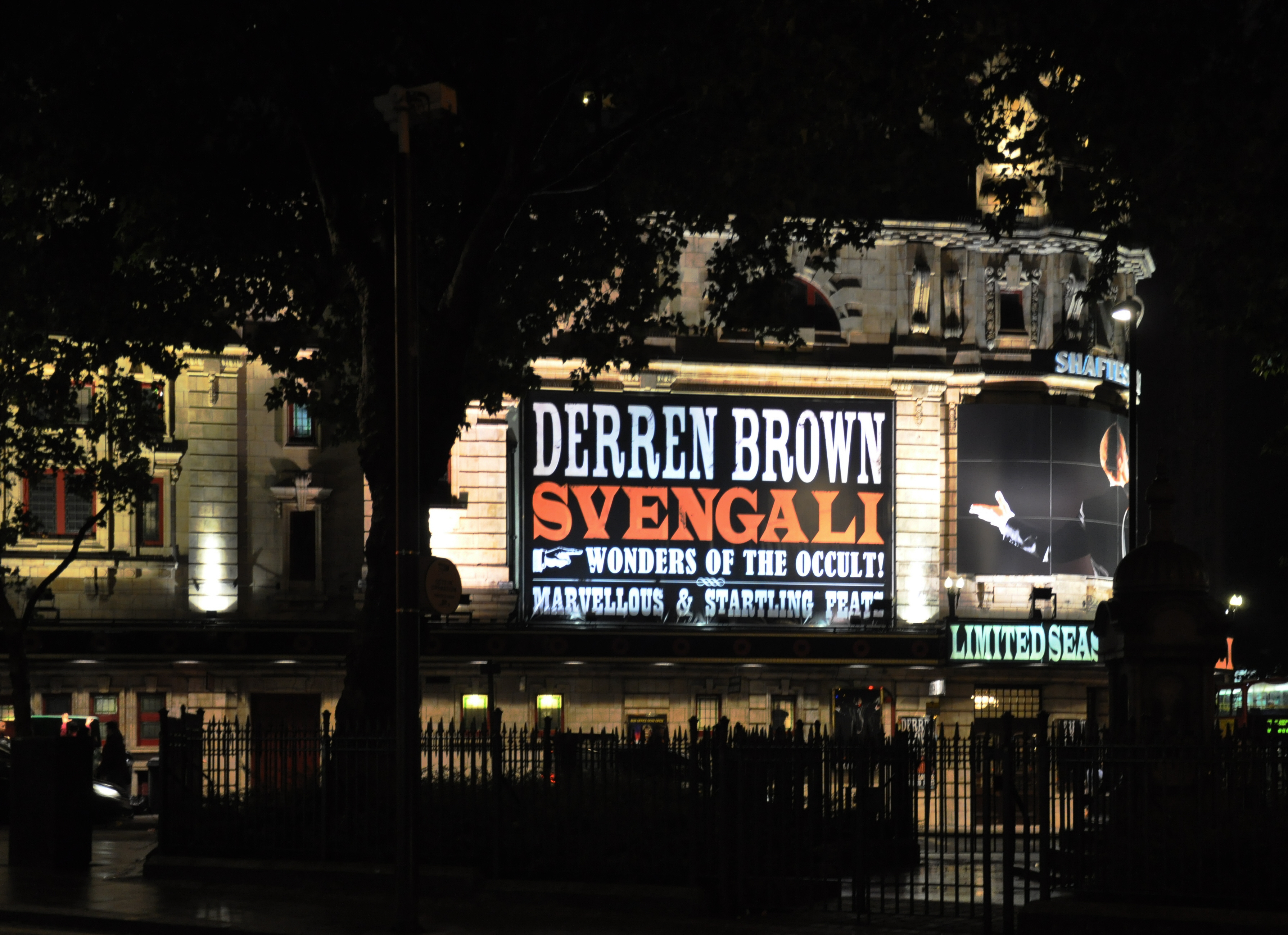 London, Shaftesbury Theatre, showing Derren Brown's "Svengali"